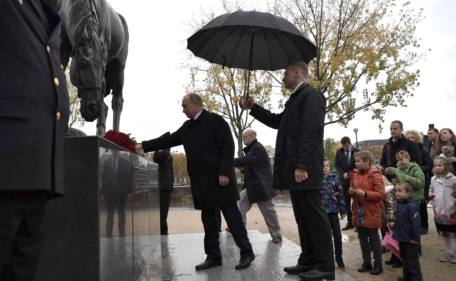 Vladimir Putin performs honor ceremony for Russian soldiers killed in World War I